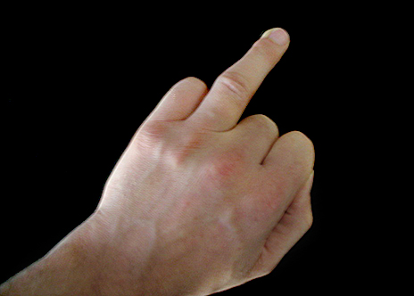 Ring finger